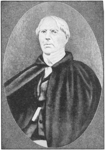 Photograph of Rev Norman MacLeod (d. 1866); photographer unknown.